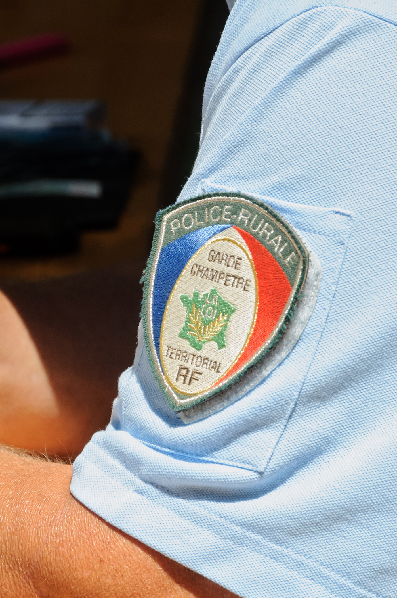 French garde champêtre badge to be worn on the left arm